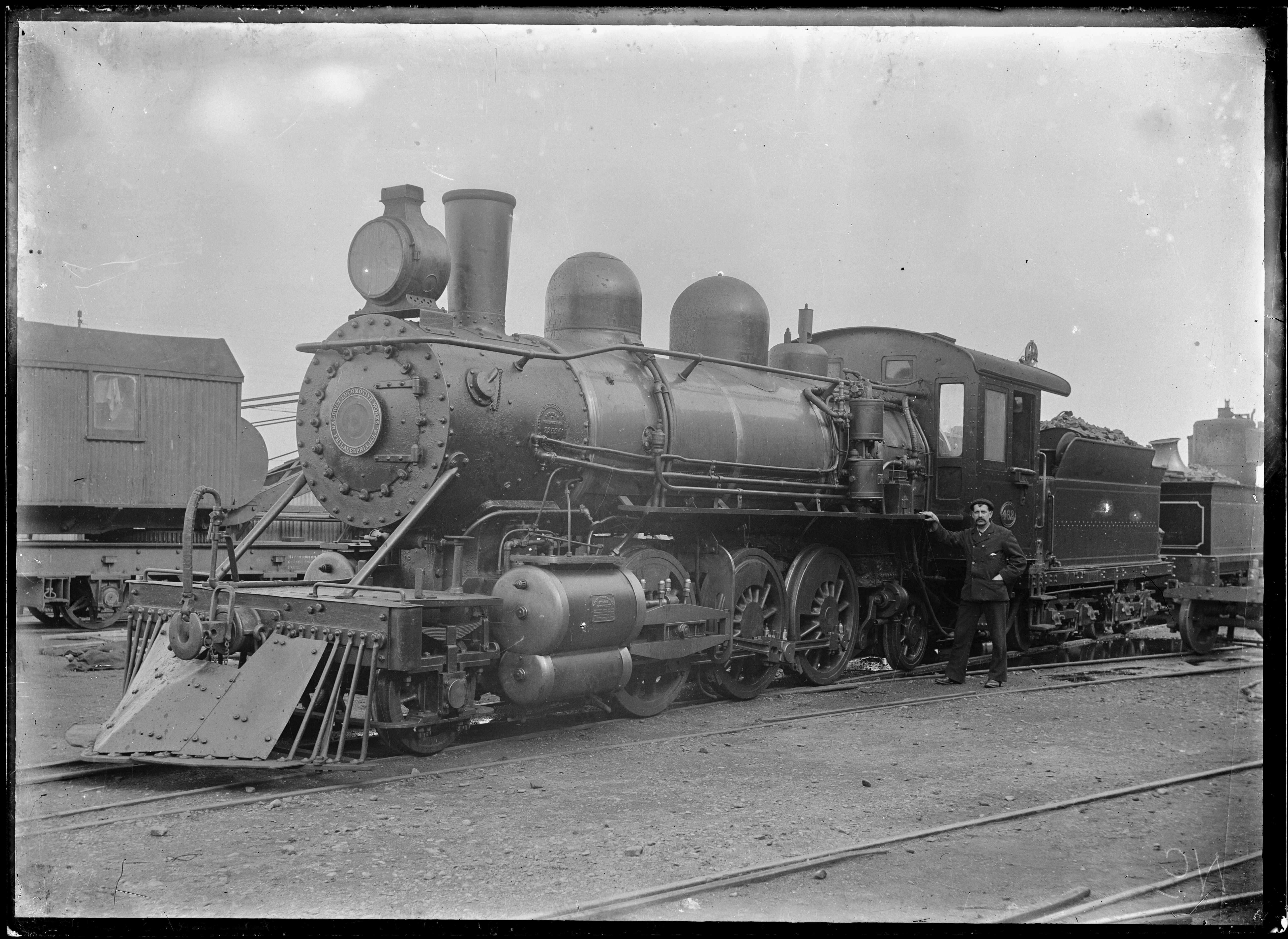 Nc Class steam locomotive NZR 462, 2-6-2 type, with Albert Percy Godber standing beside. Photograph taken by A P Godber.